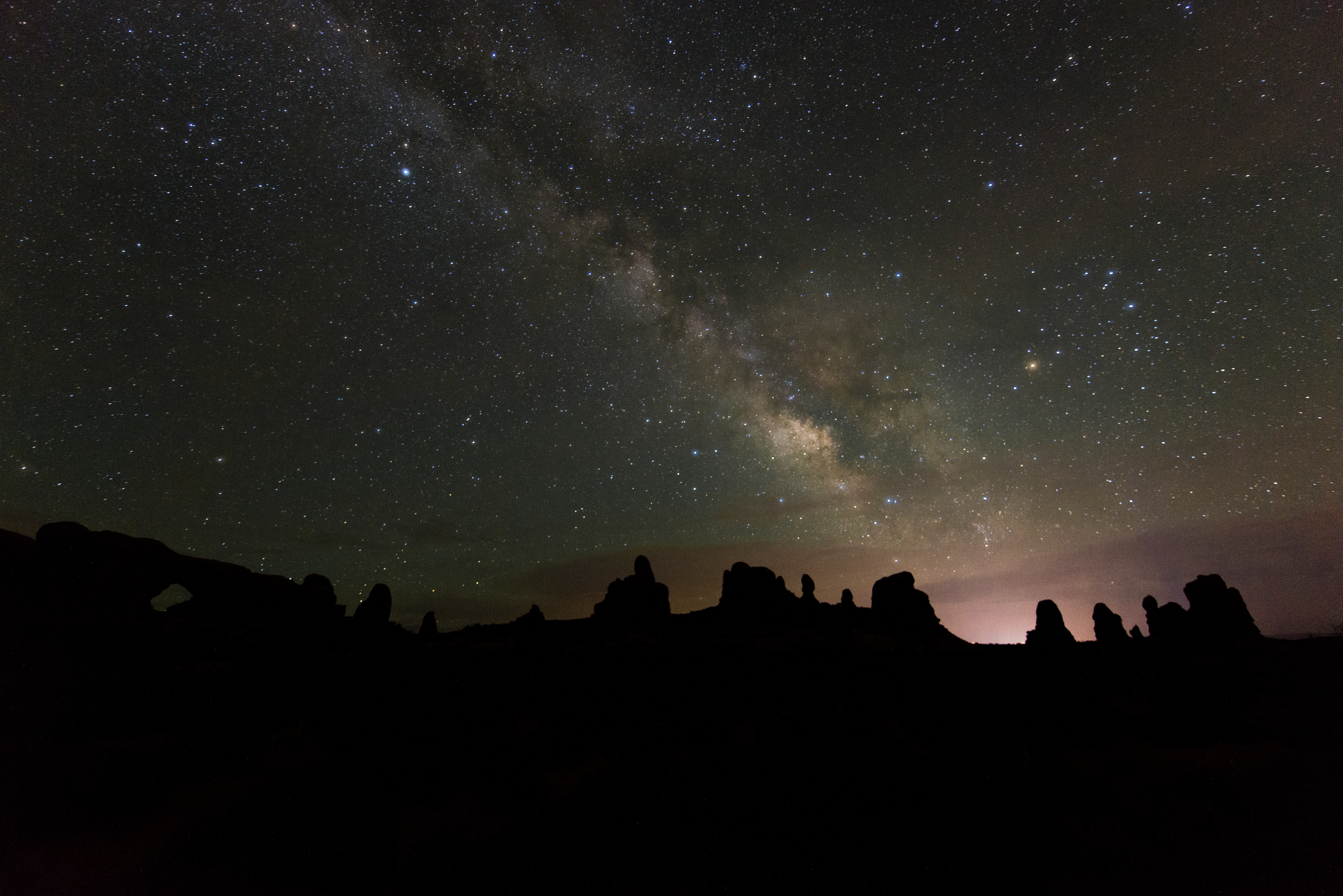 (NPS photo by Neal Herbert)